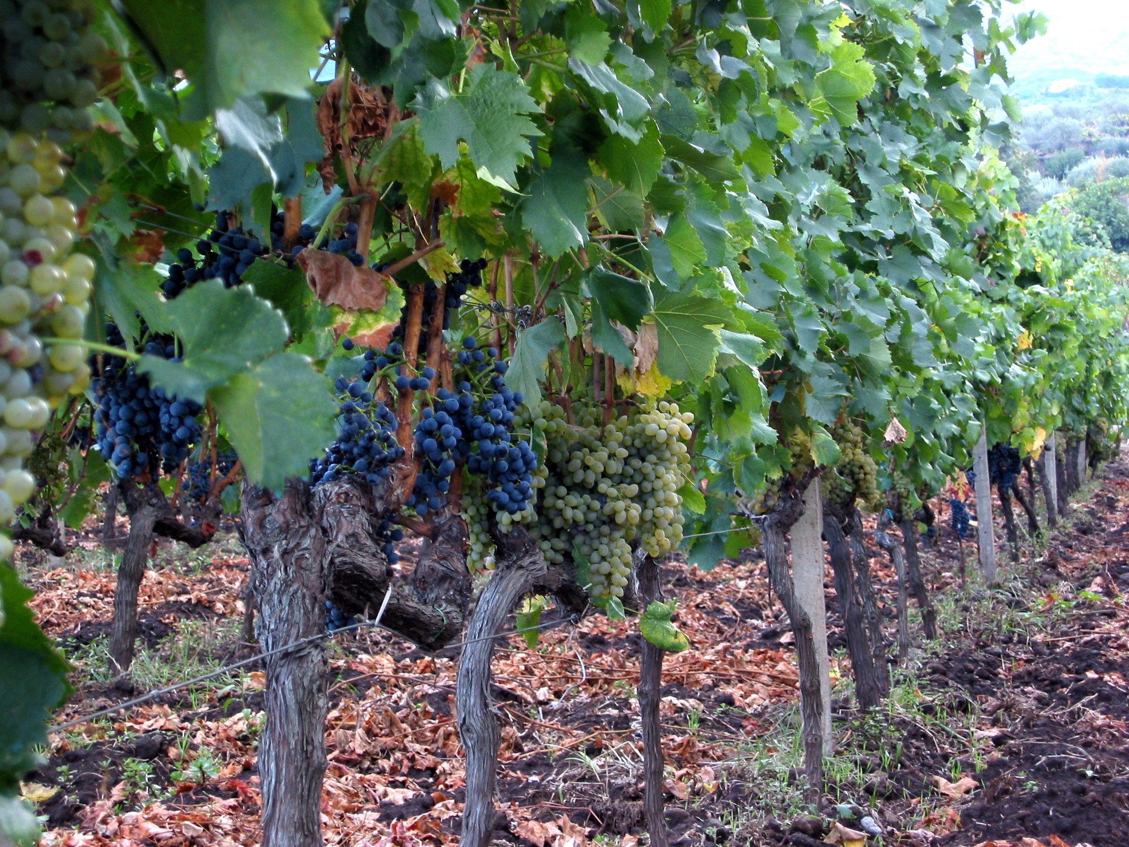 A field blend of different grape varieties (both red and white wine grapes) planted together in a vineyard in Sicily.